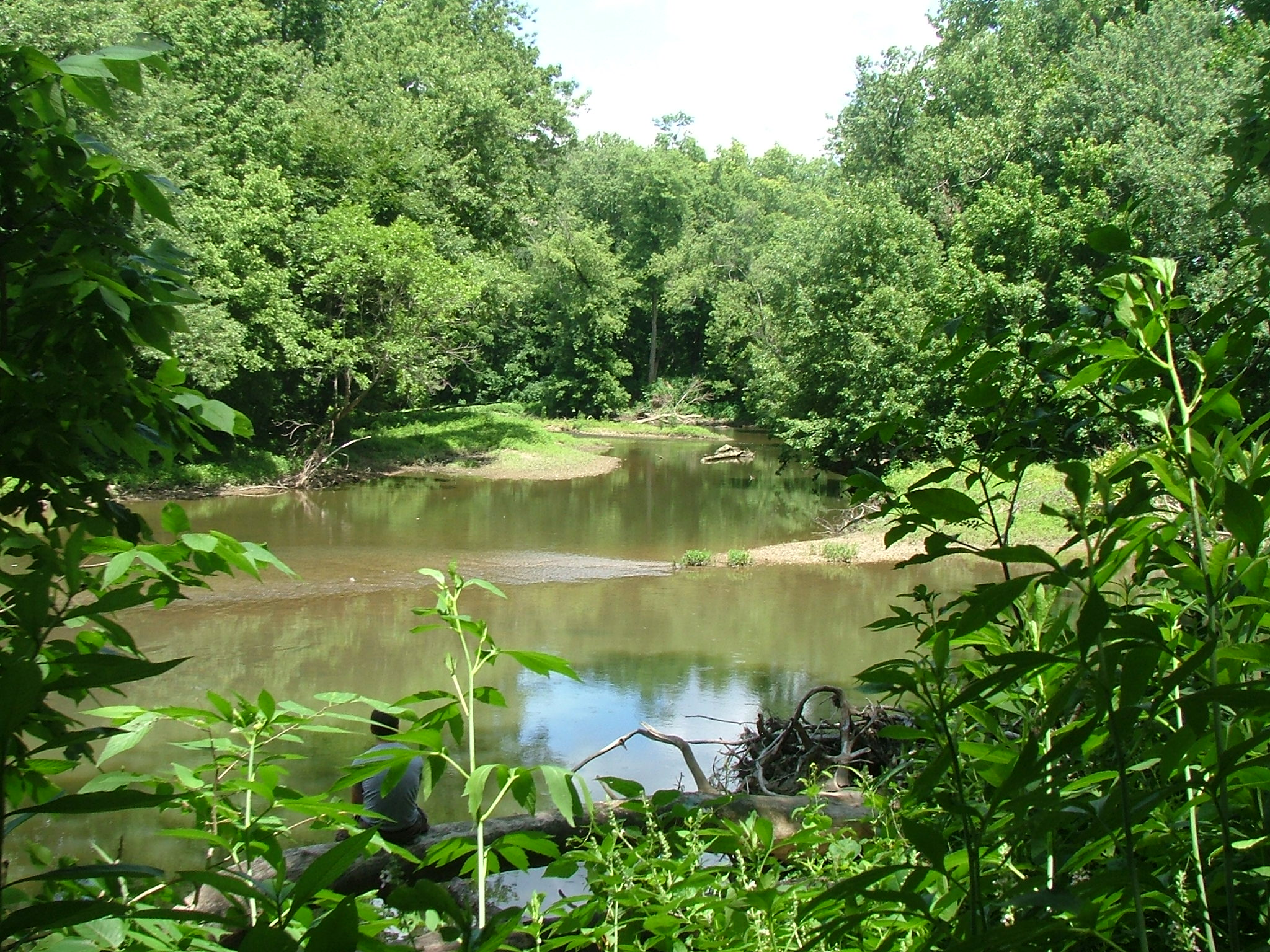 The confluence of Alum and Big Walnut creeks in Columbus at the Three Creeks Metro Park. Alum is on the left